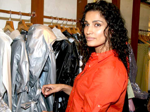 Kamal Sidhu at Soniya Vajifdar preview at Fuel